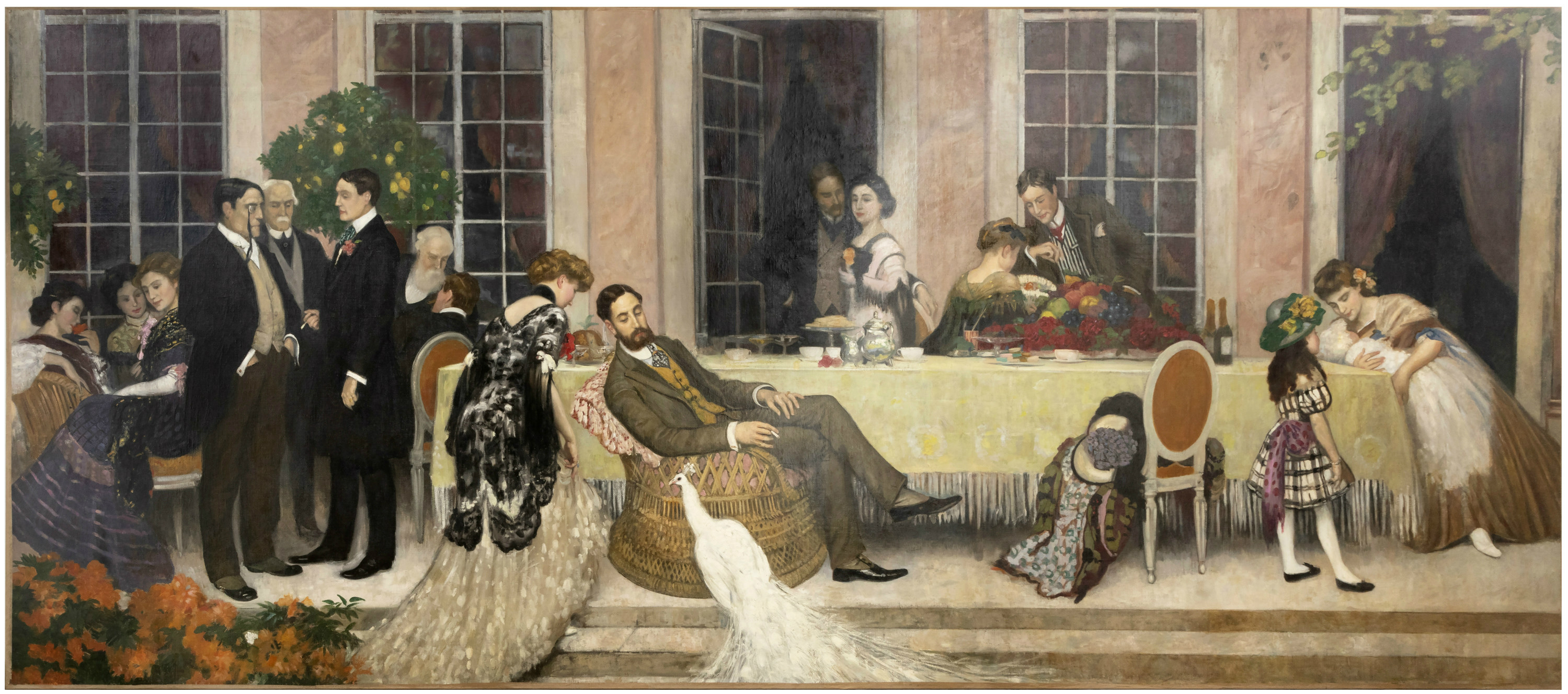 The White Peacock